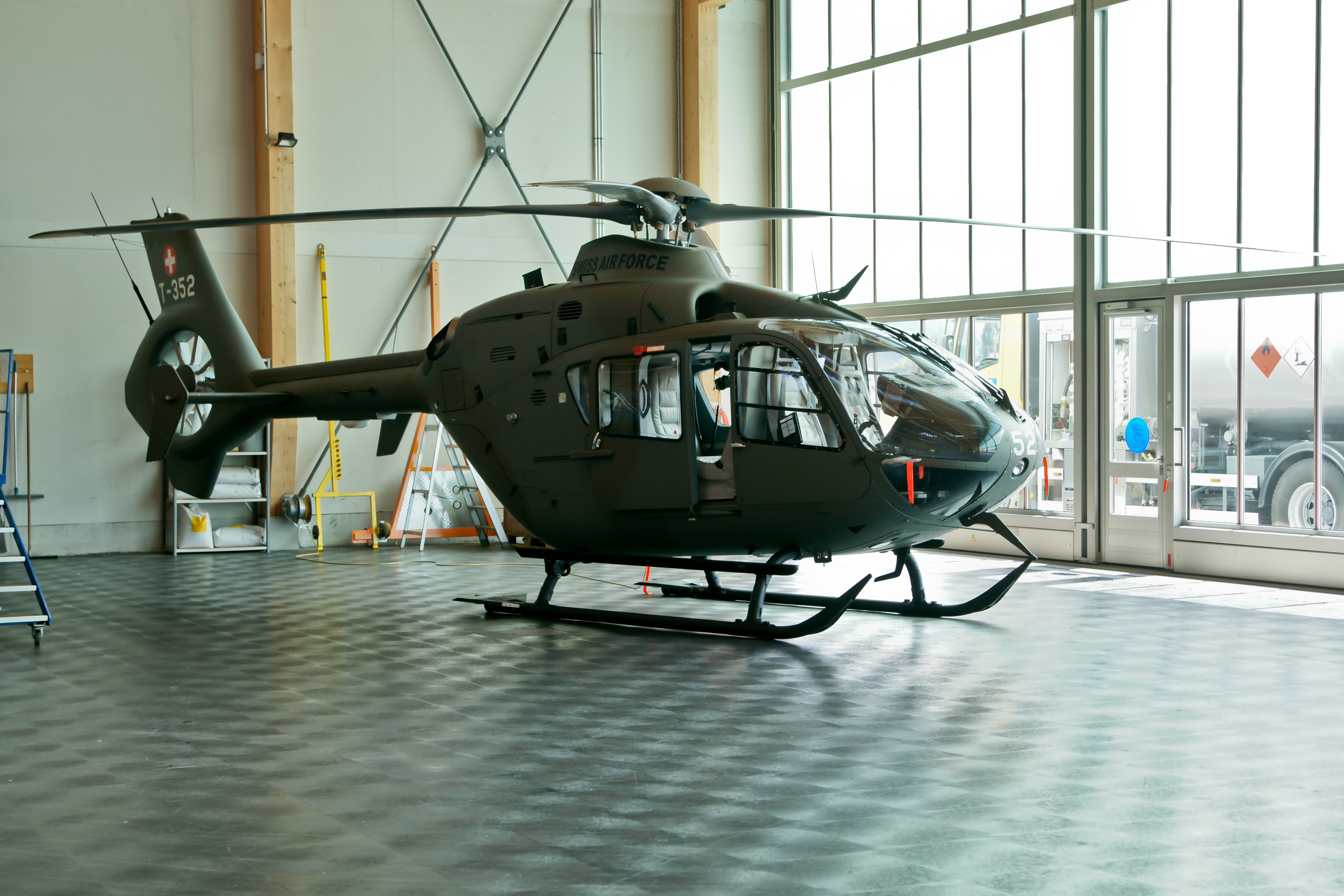 Swiss Air Force EC635P2+ VIP transport helicopter, no. T-352, in the Air Force hangar at Bern-Belp airport.